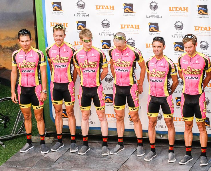 5 Hour Energy Cycling Team, at the presentation of the Tour of Utah 2013